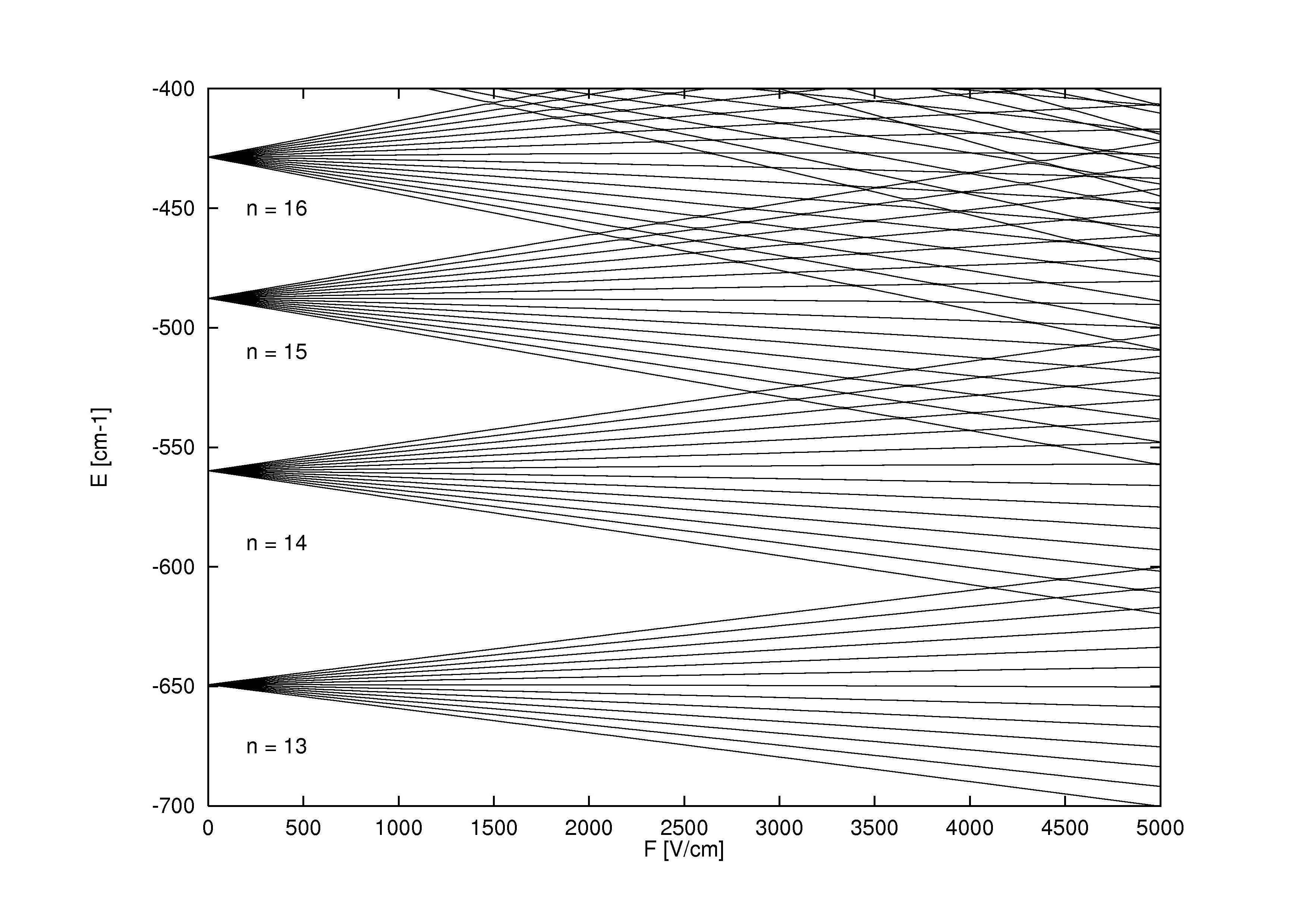 Energy level spectra of hydrogen in electric field